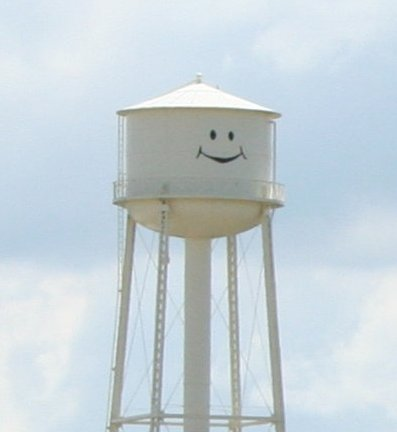 Hammond_Illinois_Water_Tower, cropped version